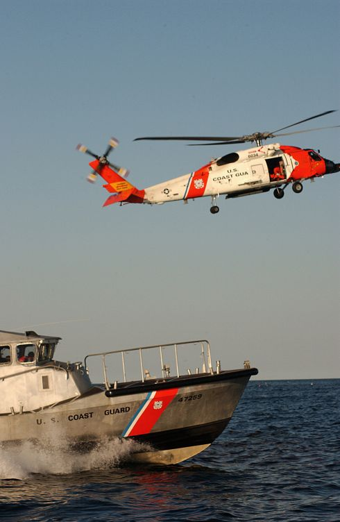 U.S. Coast Guard HH-60 and a 47-ft Motor Life Boat